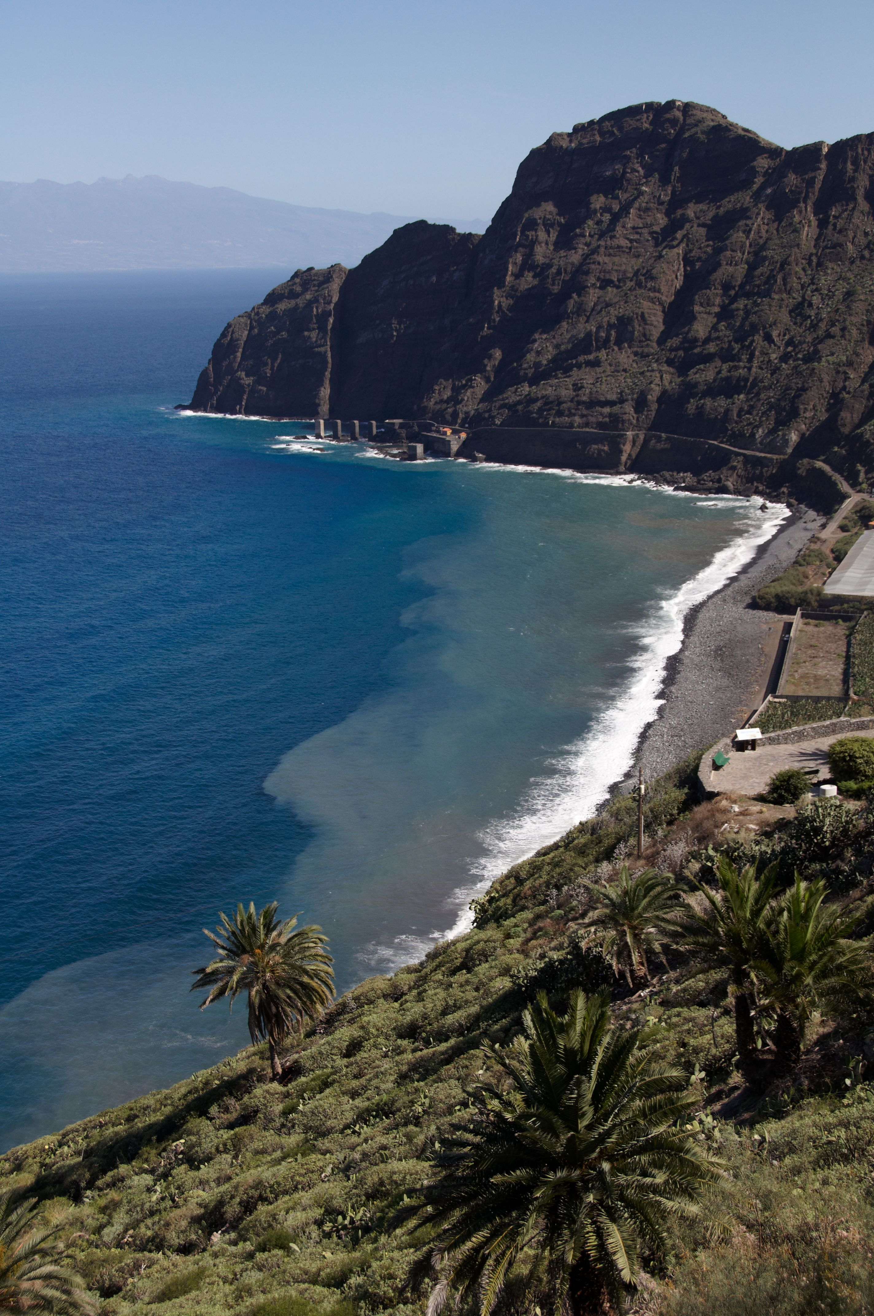 Coast near Hermigua in La Gomera, Spain